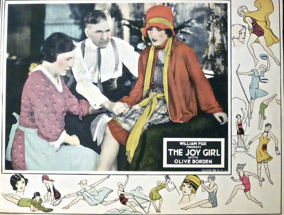 Lobby card for the American comedy film The Joy Girl (1927) with Mary Alden, William Norris, and Olive Borden. A renewal search was done in both film and artwork for the years 1954 and 1955. There were no listings for the film title or Fox Films in either category. There's no evidence of continuing copyright on the film or its related material.